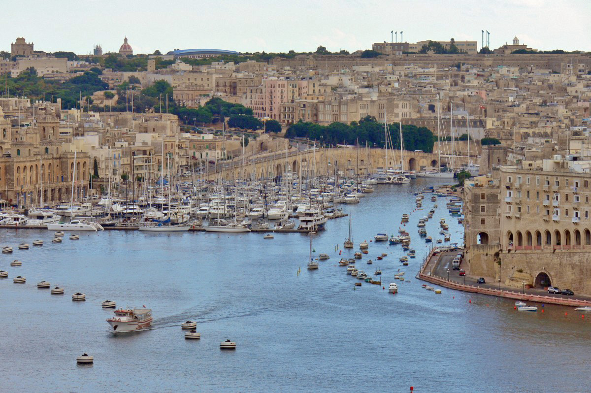 The Dockyard Creek seen from Valletta, Malta. On the right there's Senglea, behind the bay Cospicua